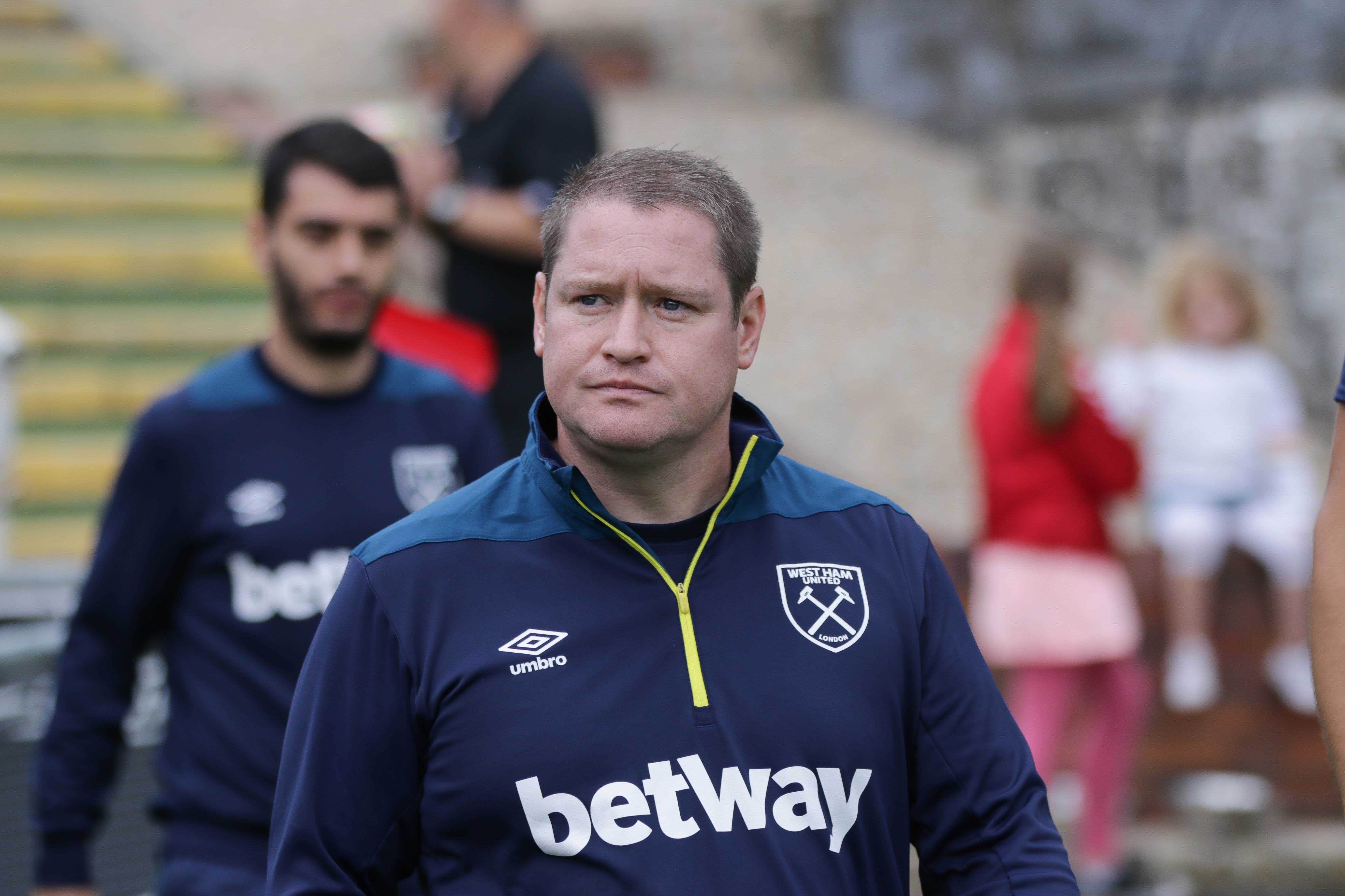 Lewes FC Women 0 West Ham Utd Women 5 pre season 12 08 2018-9.jpg